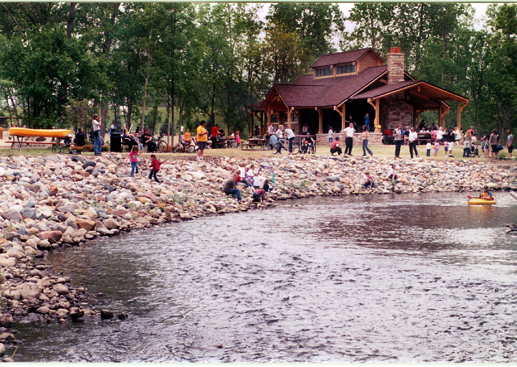 Riverwoods Park in Auburn Hills, MI